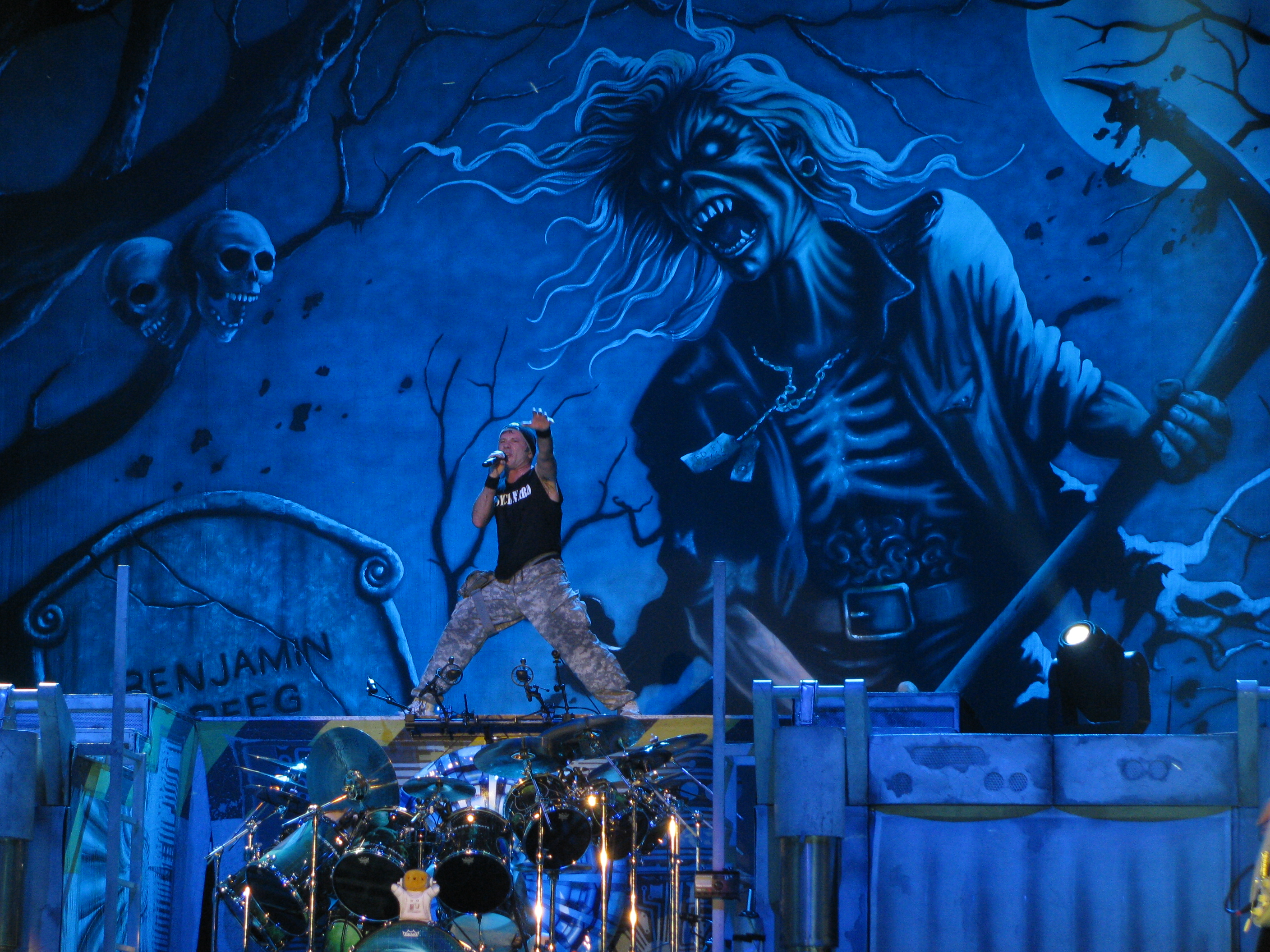 Iron Maiden in Ottawa Bluesfest 2010